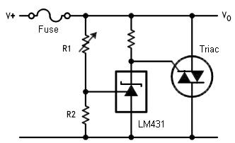 Crow Bar Circuit, Schematic Sheet